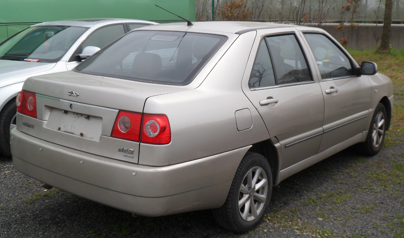 Chery Cowin 2 photographed in Anting, Shanghai municipality, China.